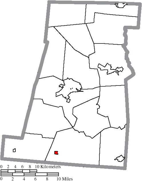 Map of the municipal and township boundaries of Madison County, Ohio, United States, as of the 2000 census, with the location of the village of Midway highlighted. Township borders are shown only in unincorporated areas in order to differentiate incorporated and unincorporated areas more clearly.